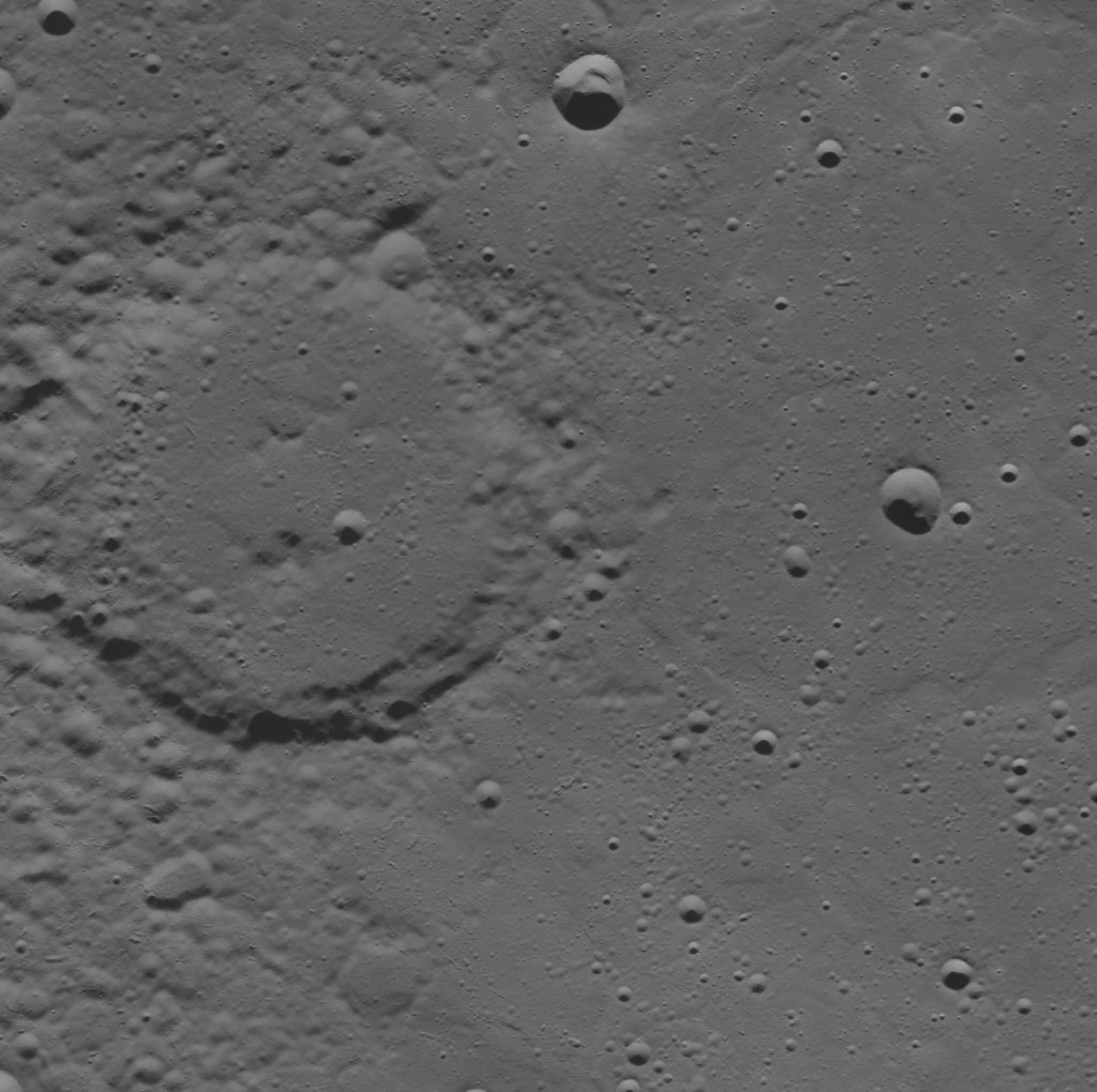 Gauguin crater (left) on Mercury. MESSENGER Wide Angle Camera image. Approximate north is in upper right. Emission Angle: 0.2 Incidence Angle: 71.7 Latitude: 66.8 Longitude: 261.9 Phase Angle: 71.7